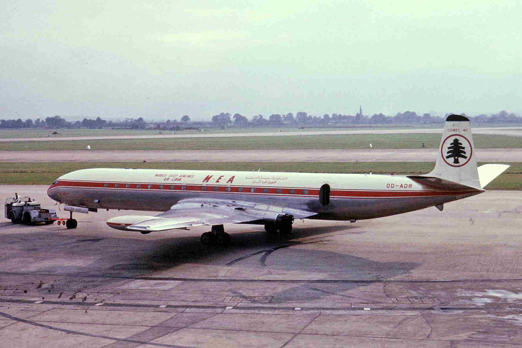 Middle East Airlines de Havilland DH106 Comet 4C (OD-ADR) at London Heathrow Airport